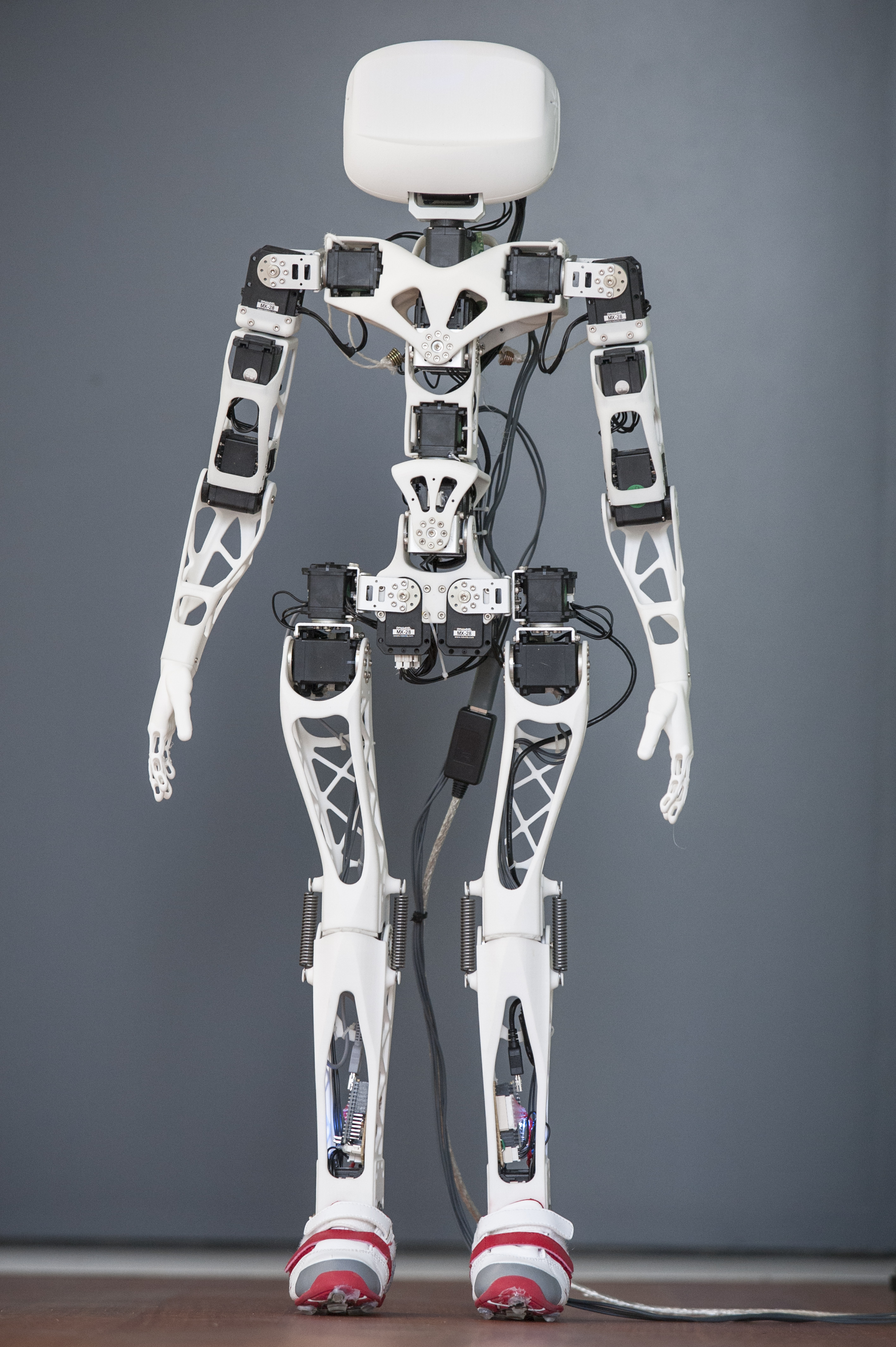 Poppy is an open-source 3D printed robotic platform, allowing to create and experiment various robotic morphologies, such as the humanoid robot shown on the image. This image is Creative Commons CC-BY-SA. Authors: Inria / / Photo H. Raguet.